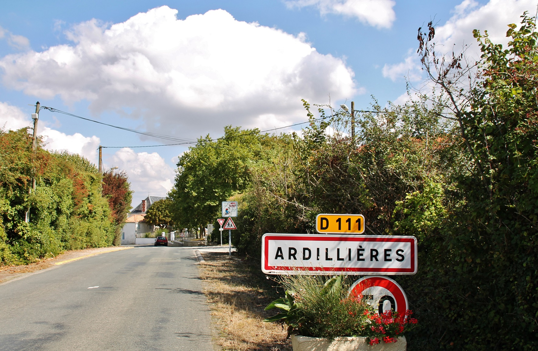 entrée du village